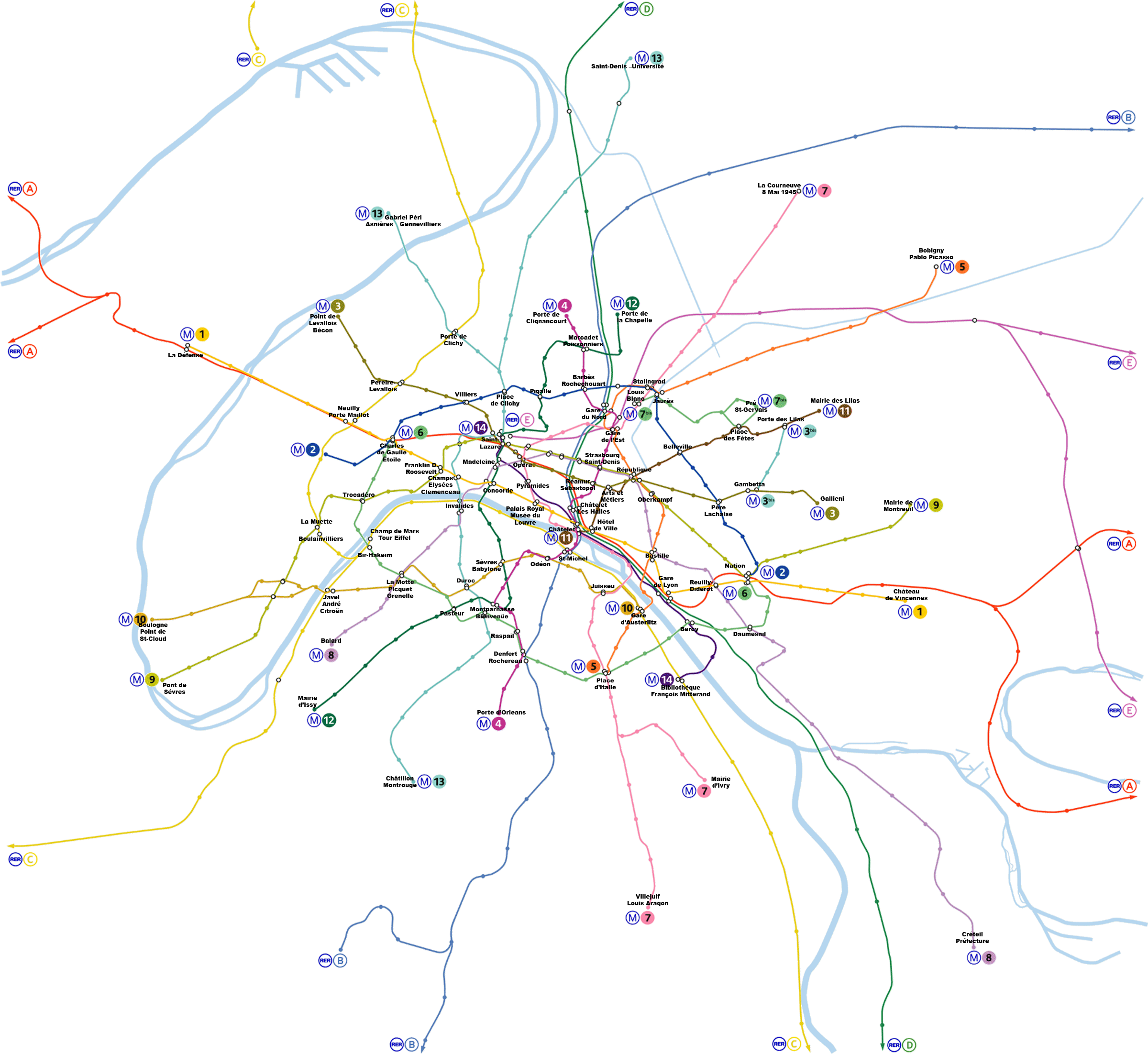 Paris metro network pictured at a geographically accurate scale.